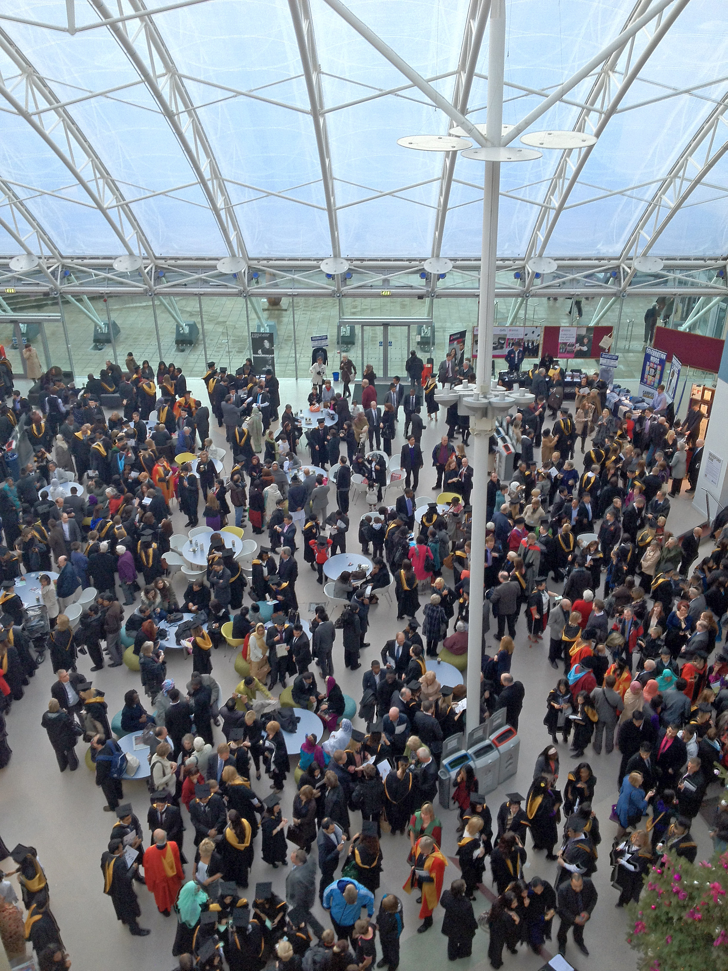 Graduation day in the Atrium at thye University of Bradford, Bradford, West Yorkshire. Taken by Flickr user: Tim Green aka atouch on Wednesday the 7th of December 2011.